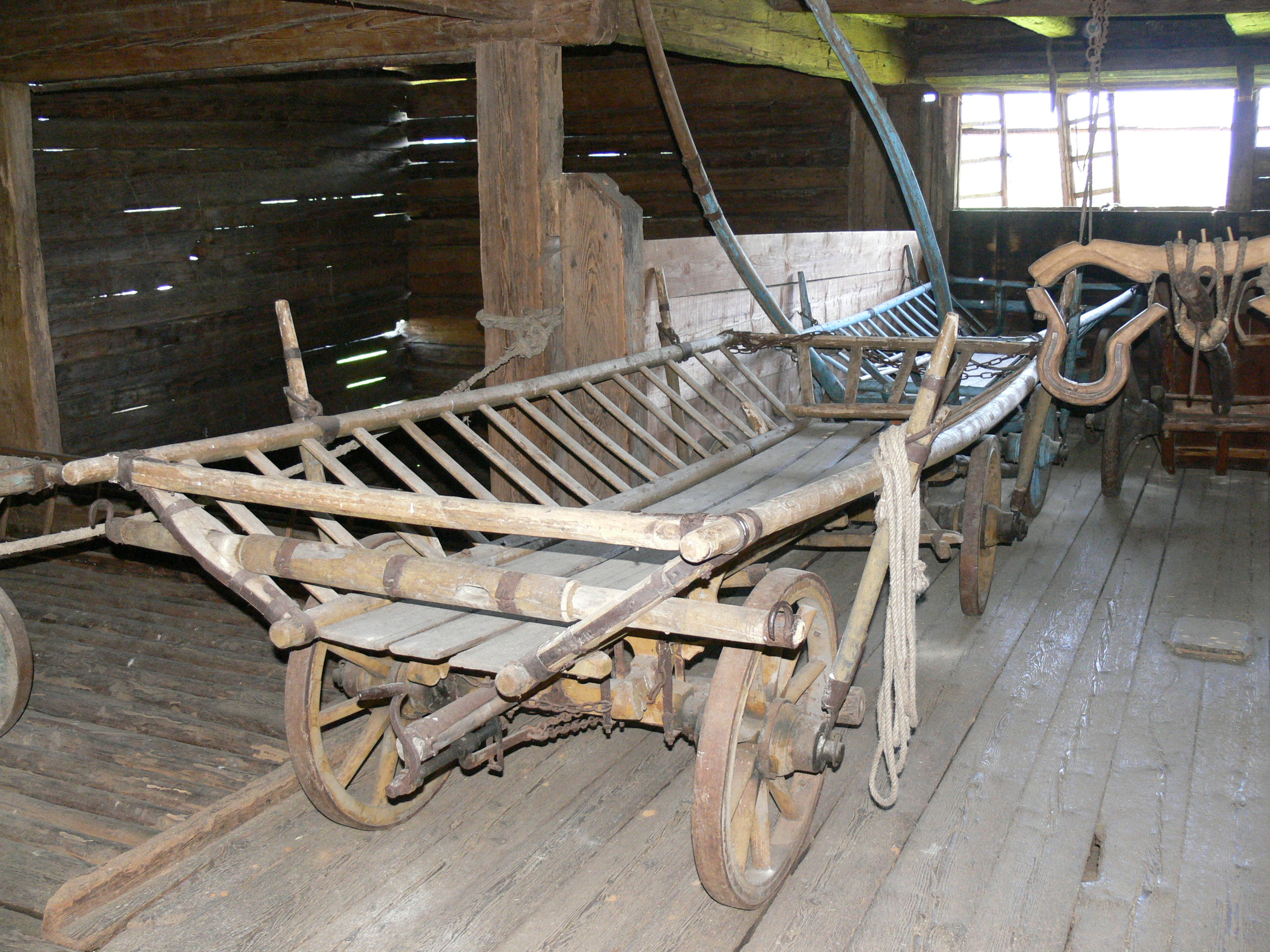 Ethnographic Museum at Dietenheim ( South Tyrol ). So called "Futterhaus" from Ahrntal: Leiterwagen ( Ladder cart ).